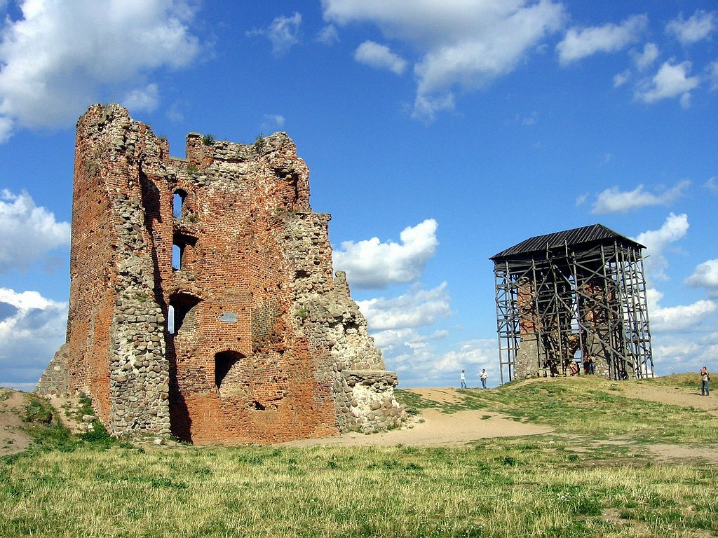 The ruins of Navahradak Castle. Navahradak, Belarus